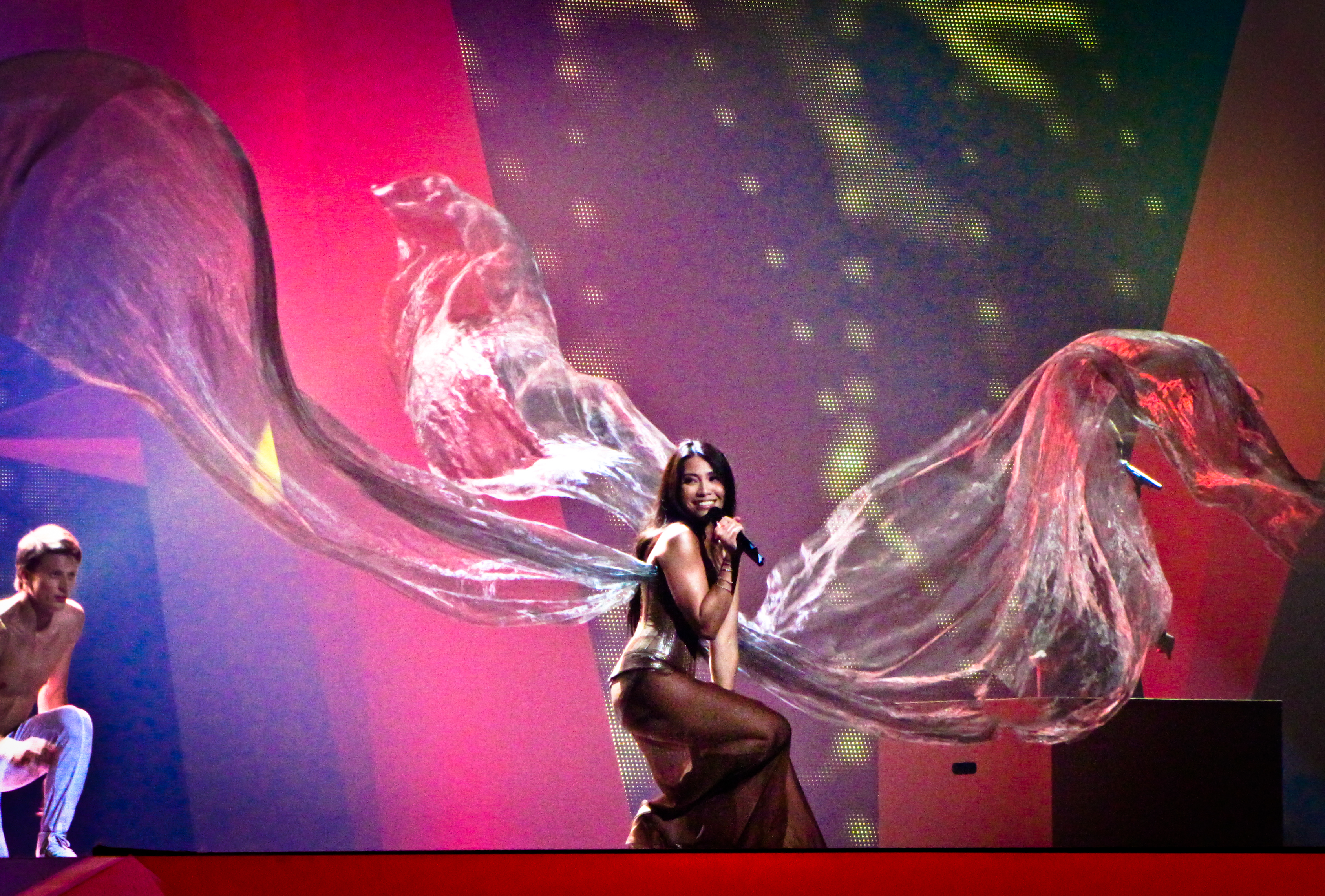 Anggun performing her song "Echo (You and I)" during the Eurovision Song Contest 2012 grand finale in Baku, Azerbaijan.